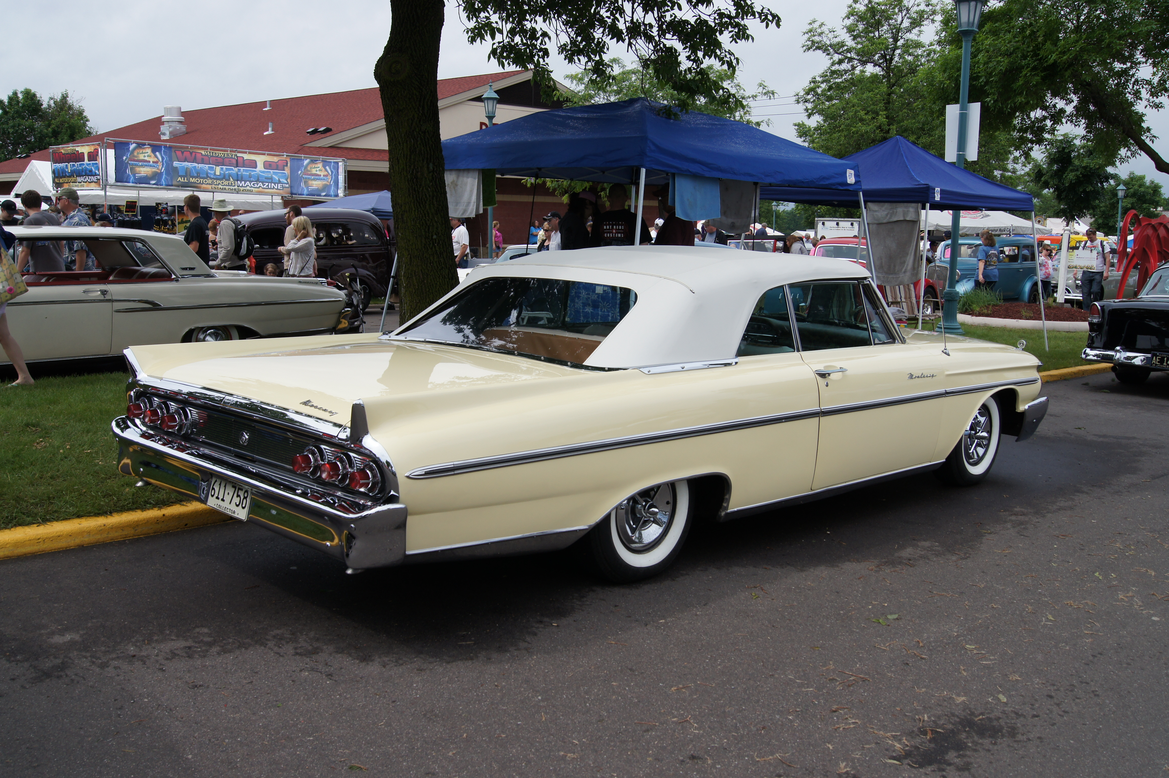 MSRA “BACK TO THE 50′s” 40th ANNIVERSARY June 21-23, 2013 State Fairgrounds St. Paul Minnesota More Car Pictures